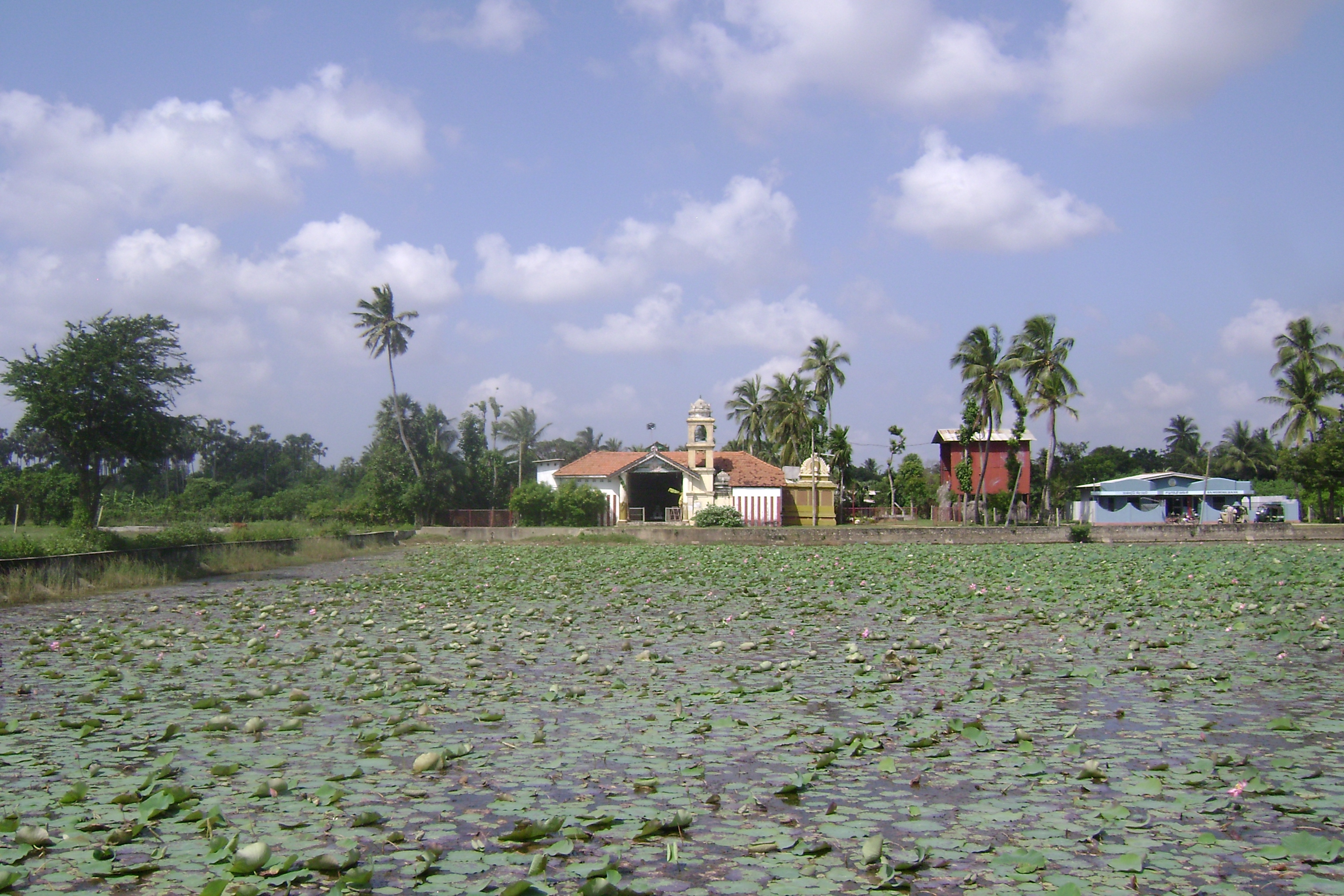 This is a screen shot taken from the Road side towards the temple.